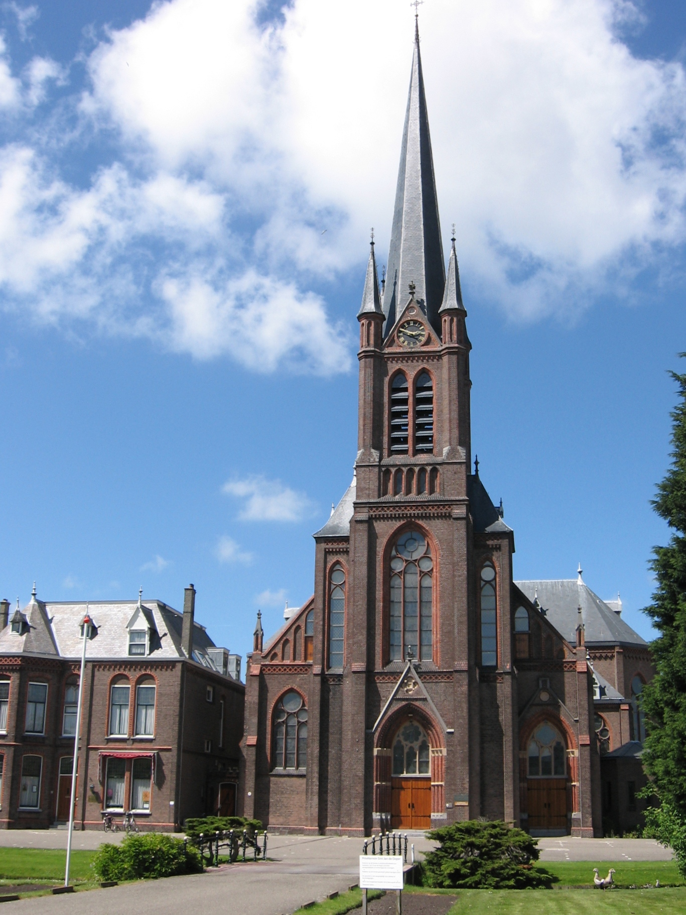 St. Jan de Doper church, Wateringen